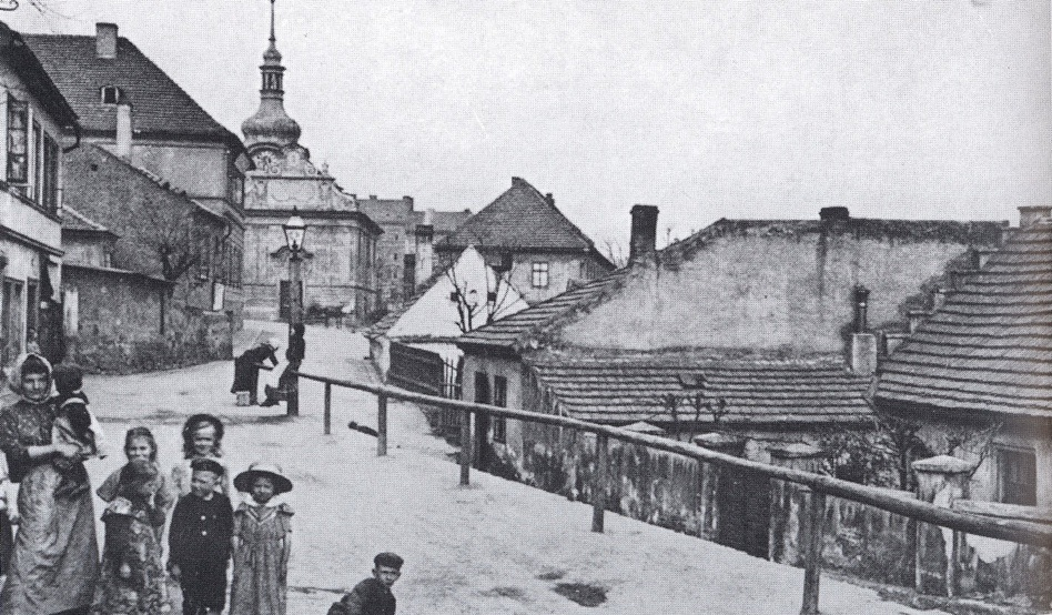 Church of st. Nicholas - Prague, Vršovice Česky: Praha-Vršovice, průhled Šafaříkovou ulicí na farní kostel sv. Mikuláše.